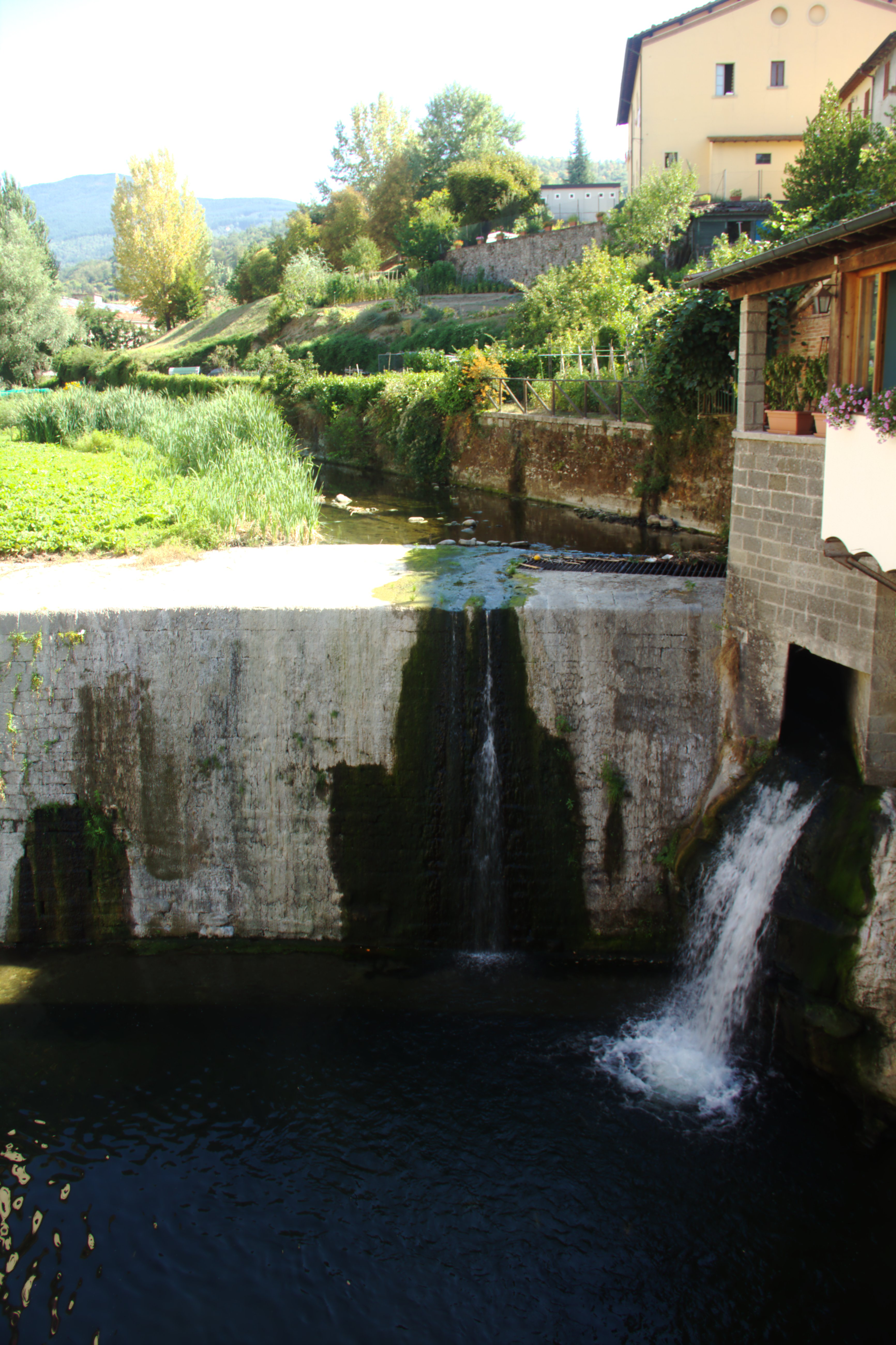 Staggia river in Stia.